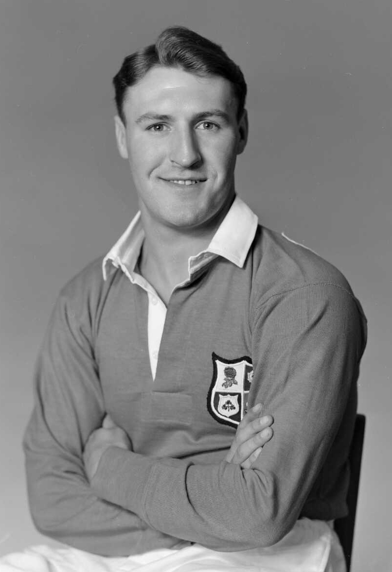 G Rimmer, member of the Lions, British representative rugby union team